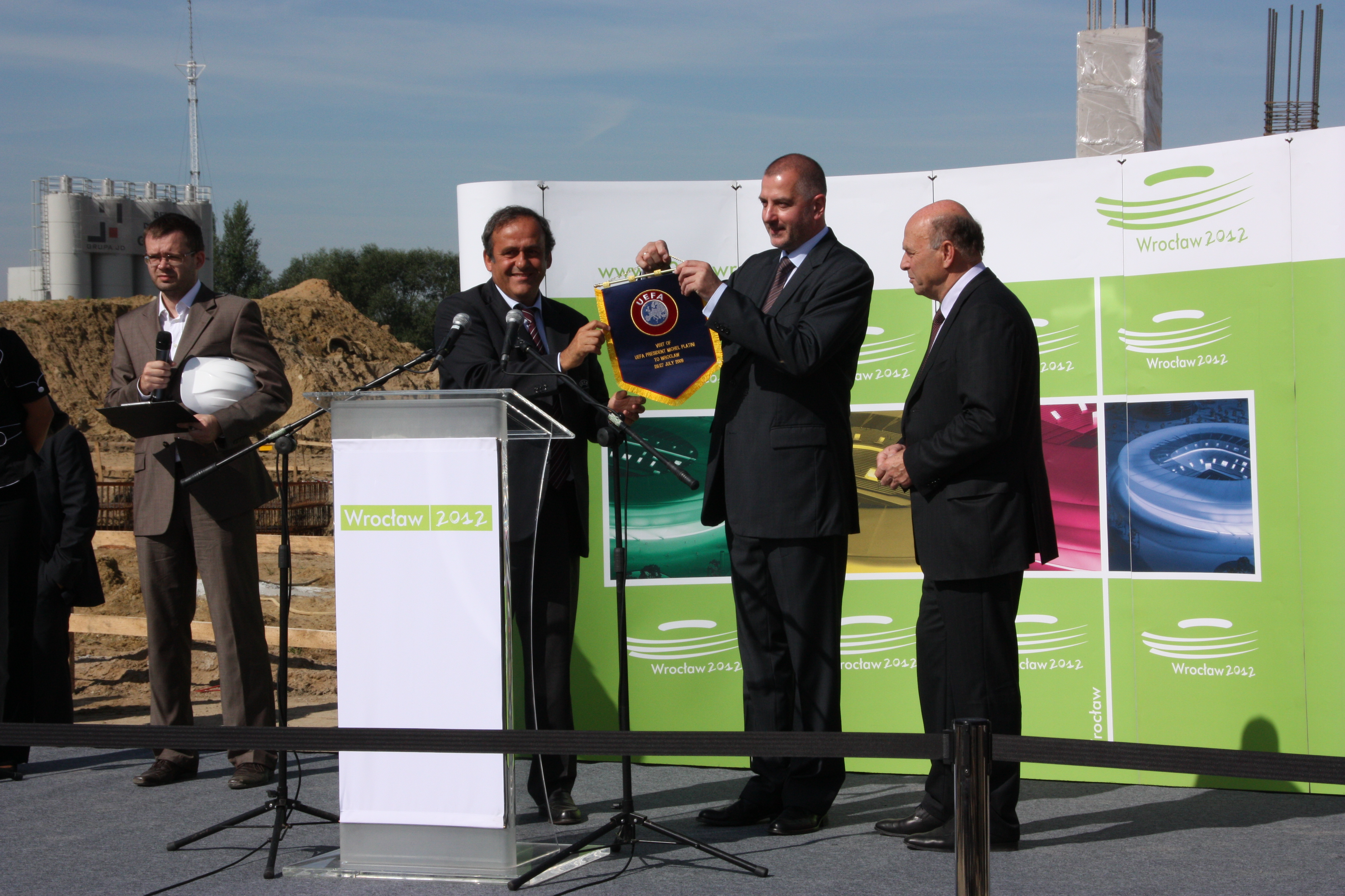 inline=yesUEFA president Michel Platini (behind the microphones), mayor of Wrocław Rafał Dutkiewicz and president of the PZPN Grzegorz Lato during Platini's visit to Poland in summer of 2009.